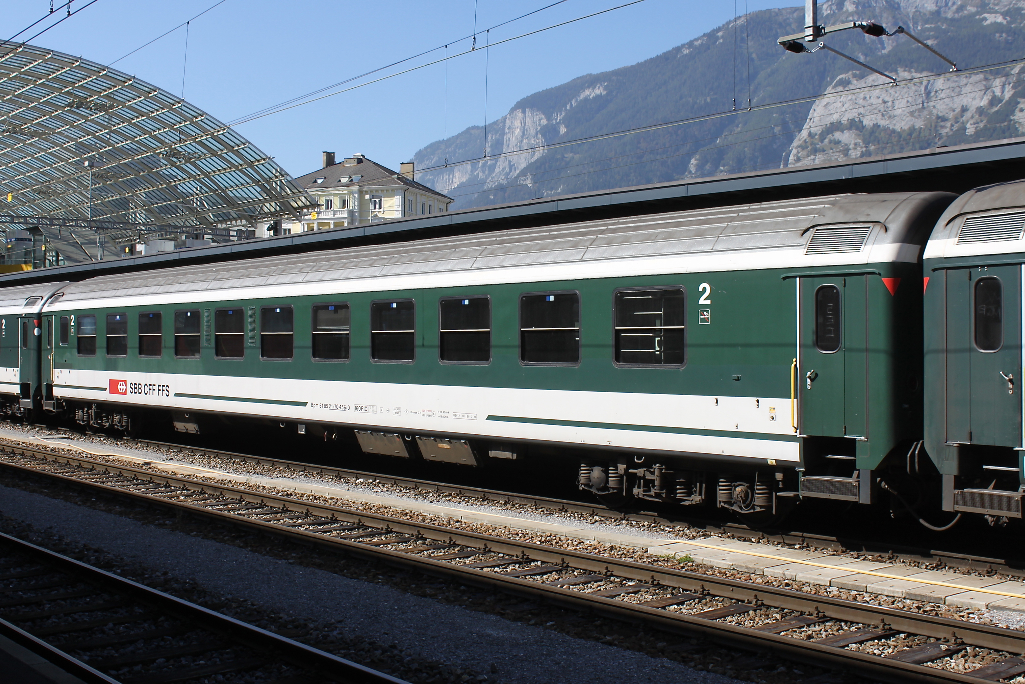 Bpm 51 85 21-70 456-0 at Chur (RegioExpress 3830 Chur — St. Gallen).